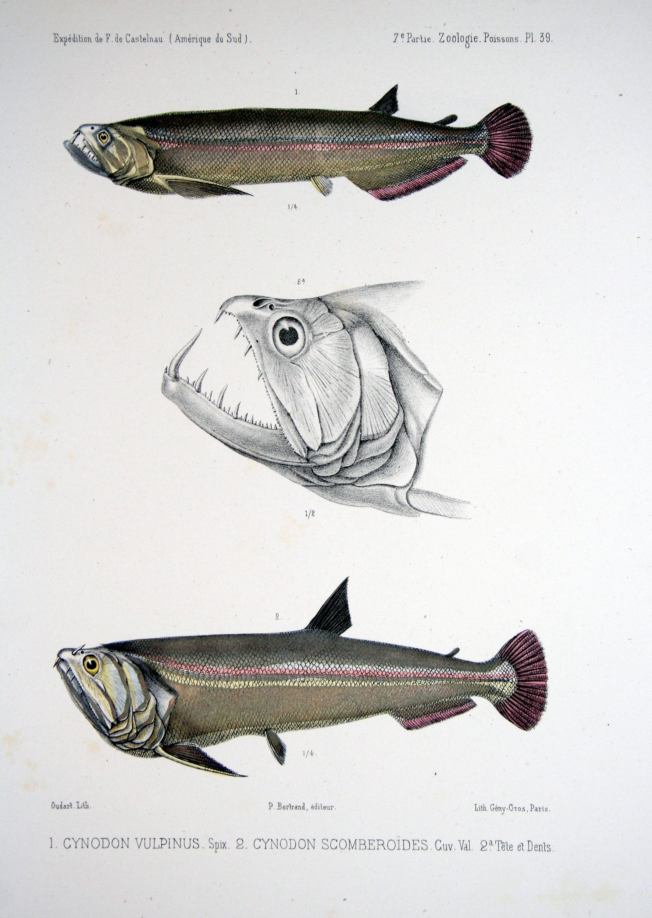 From top to bottom: Cynodon vulpinus = Rhaphiodon vulpinus Cynodon scomberoides = Hydrolycus scomberoides (2a: head and teeth)